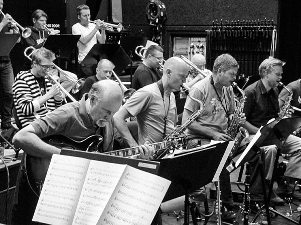 John Scofield with Kluvers Big Band in Aarhus Denmark 2011